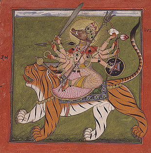 Varahi Seated on a Tiger. Folio 35 from the Tantric Devi series. India, Punjab Hills, Basohli, ca. 1660-70. Opaque watercolor, gold, and beetle-wing cases on paper.